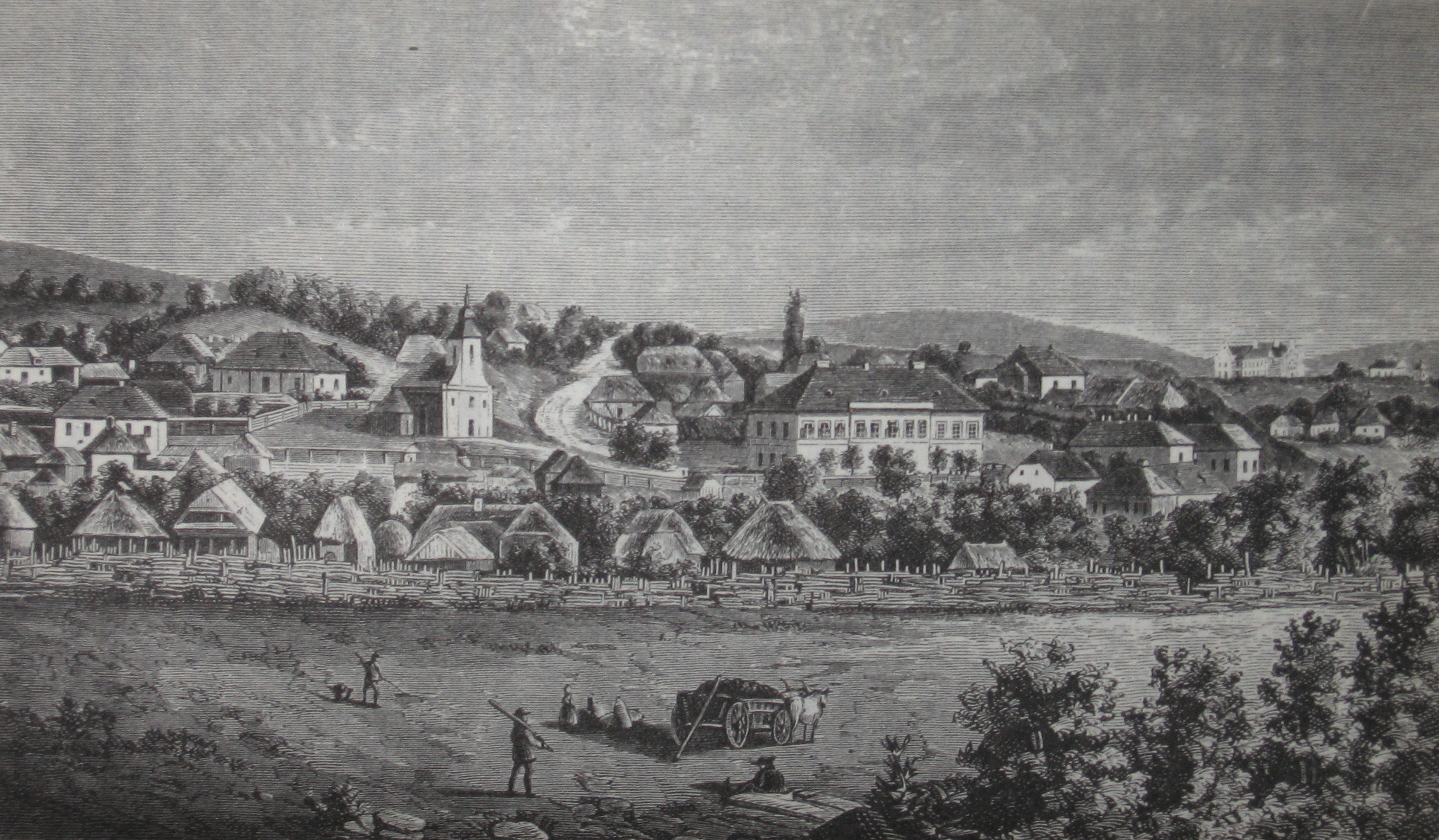 Unirea, Alba, previously Vinţu de Sus (Hungarian: Felvinc), in the 19th Century